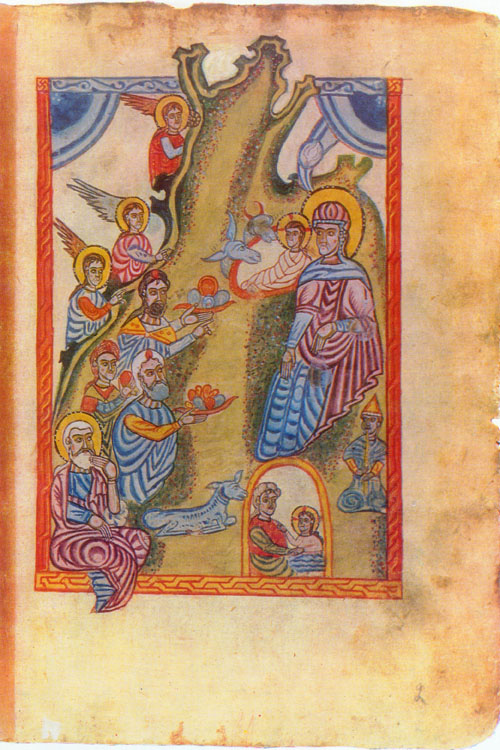 The birth of Christ and the Adoration of the Magi, a miniature of Zakaria Gnunetsi, 1575 y.